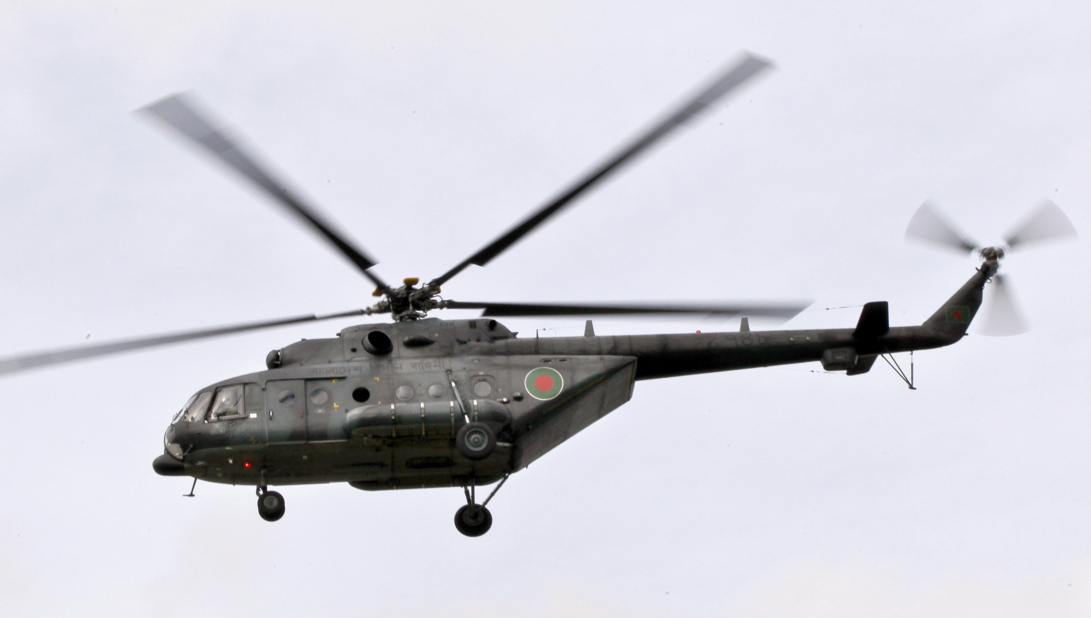 Bangladesh Air Force Mil Hip Helicopter